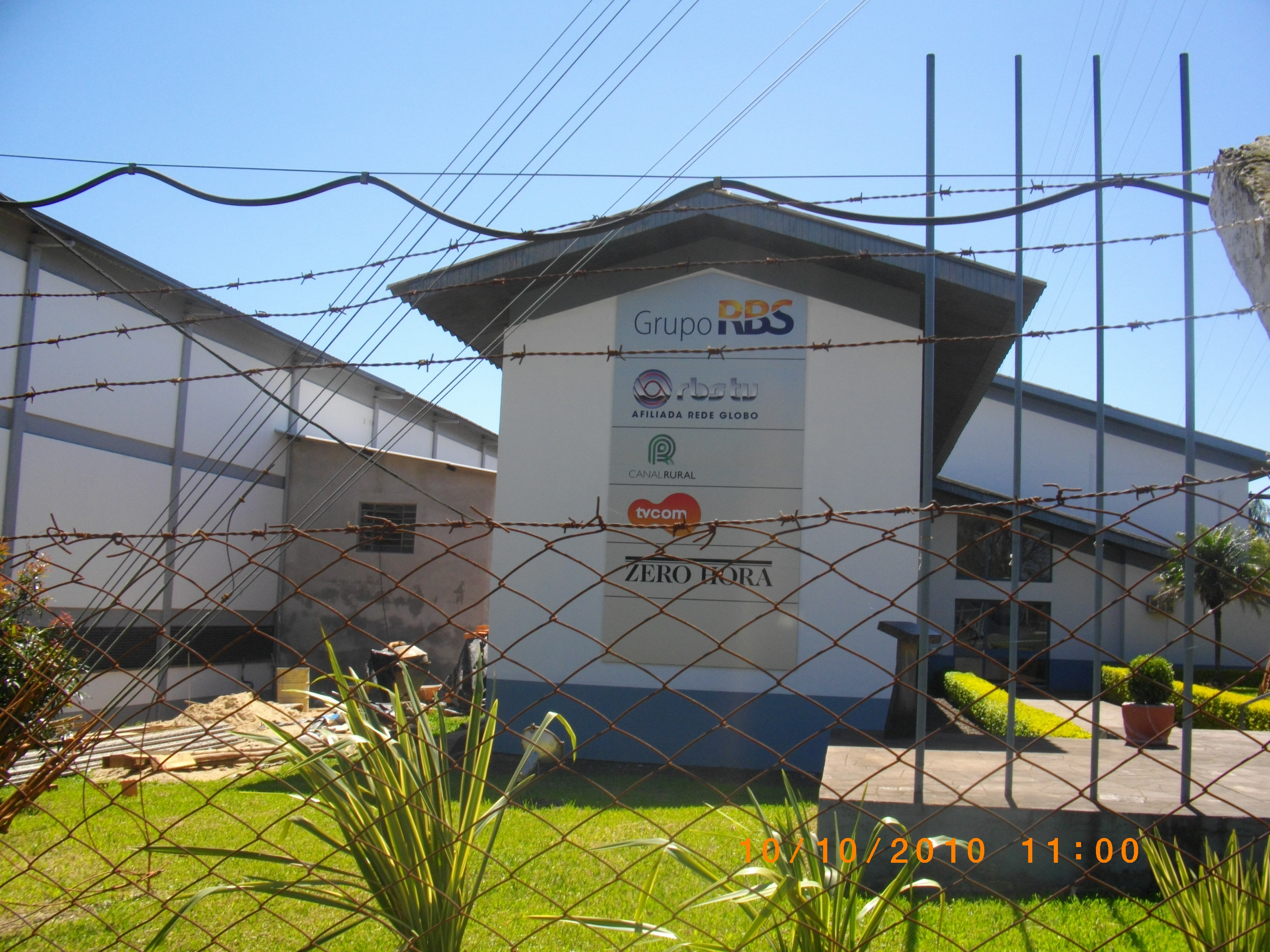 RBS TV Cruz Alta - RS